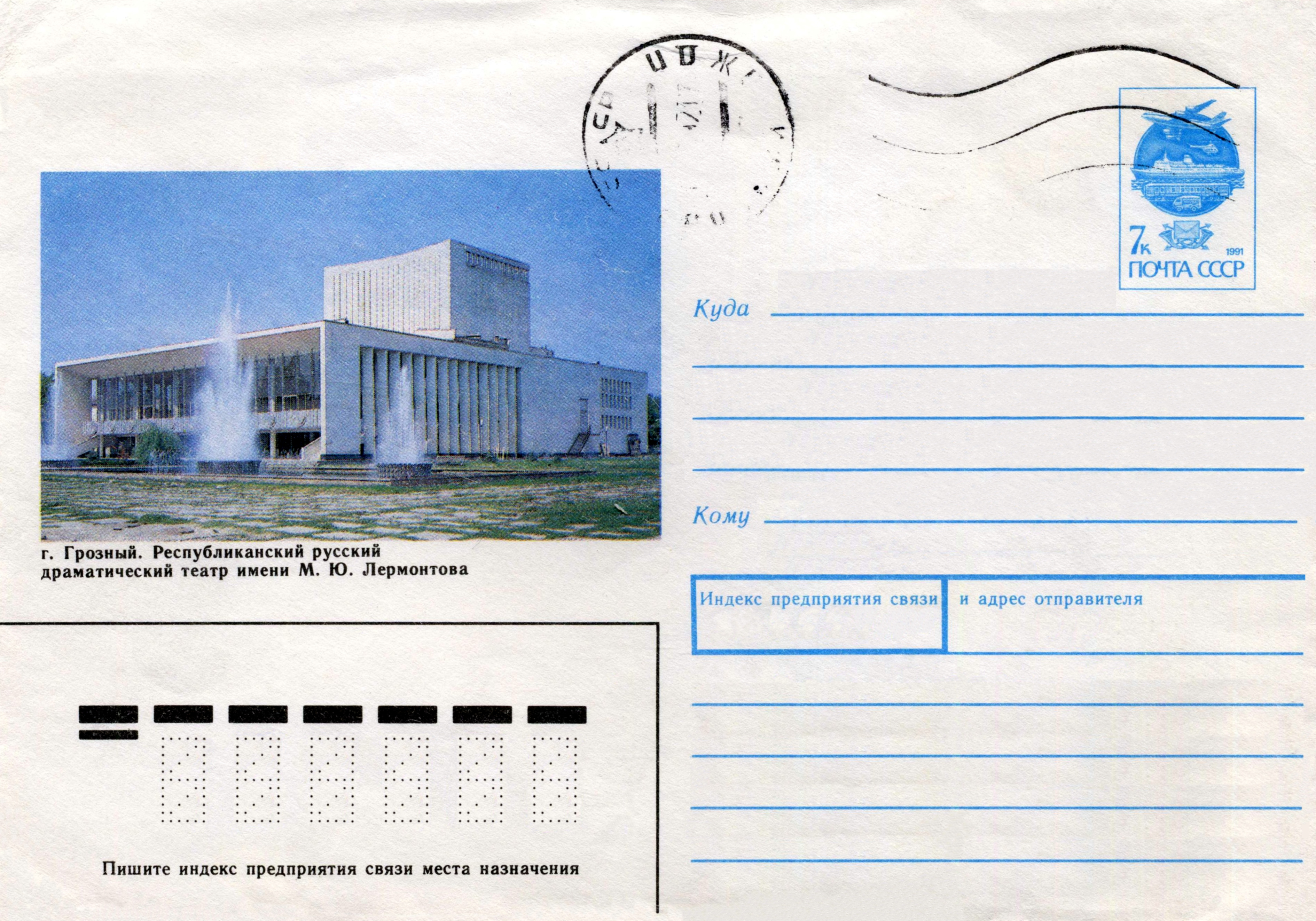 Republican Russian drama theater of Mikhail Lermontov in Grozny city. The illustrated cover with the imprinted definitive stamp (7 kopeks), USSR, 1991.